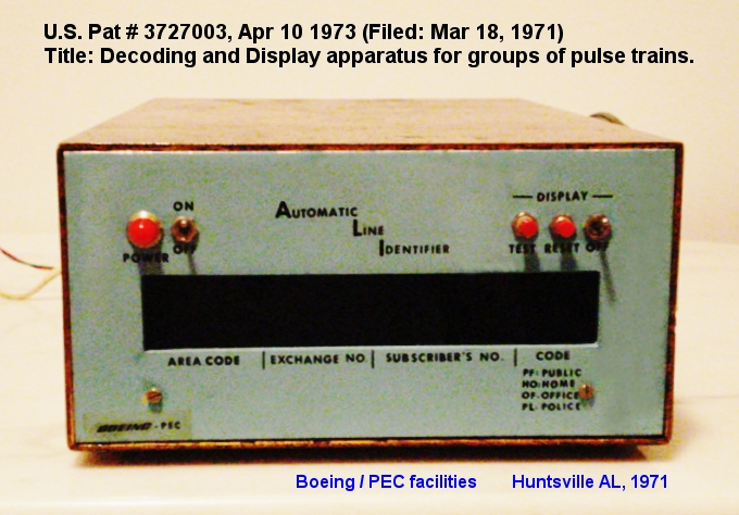 Original Caller Identification receiver installed at Boeing/PEC facility in Huntsville Alabama